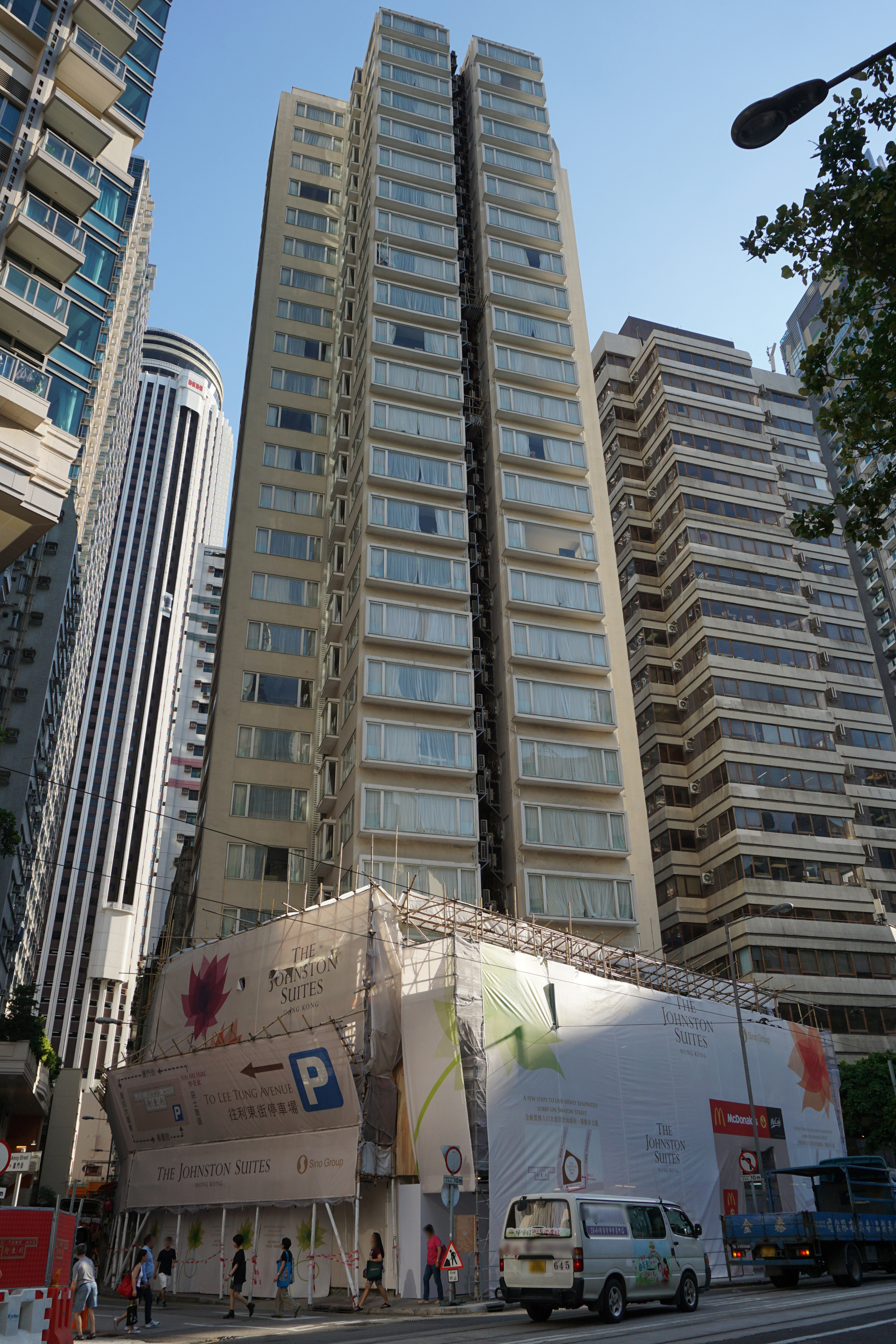 The Johnston Suites in Wan Chai, Hong Kong.